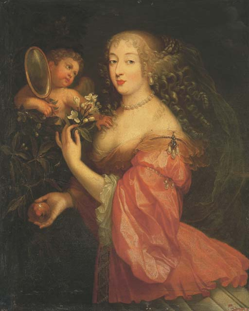 Portrait of the Duchess of Montpensier, Anne Marie Louise d'Orléans